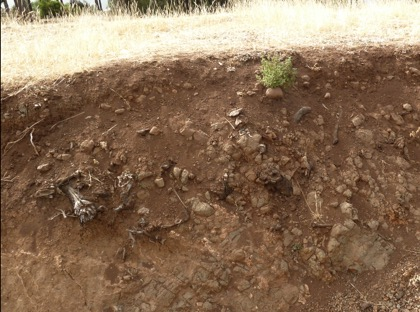 Hemijske osobine